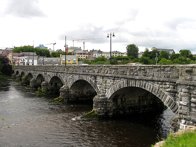 Bridge over the River Laune. The bridge is viewed here from the intersection of the N72 and the N70 to Milltown.